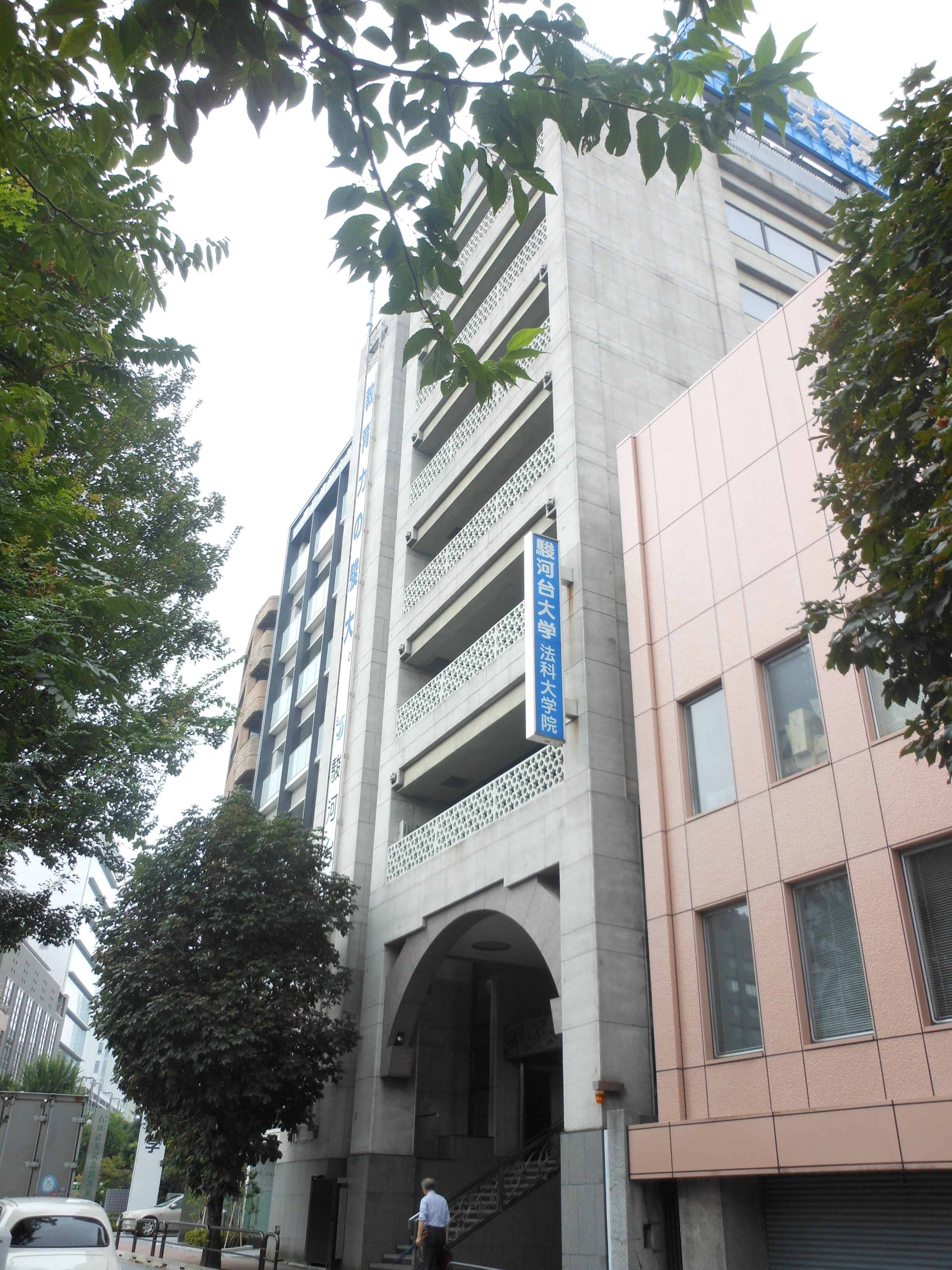 This is the Surugadai University Ochanomizu Campus in Chiyoda, Tokyo, Japan.